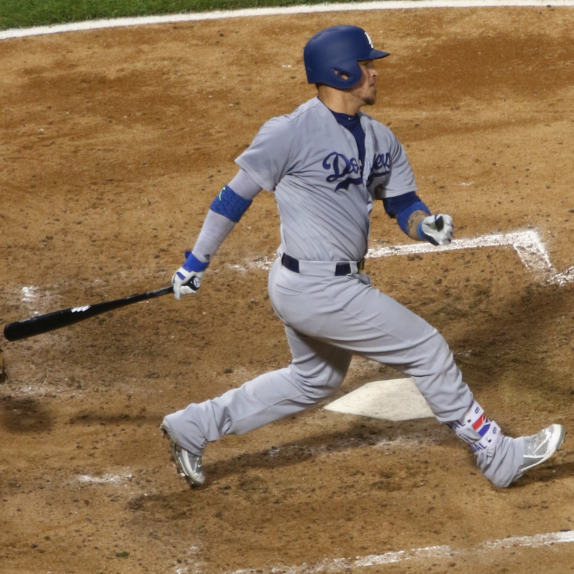 Yasmani Grandal for the 2017 Los Angeles Dodgers